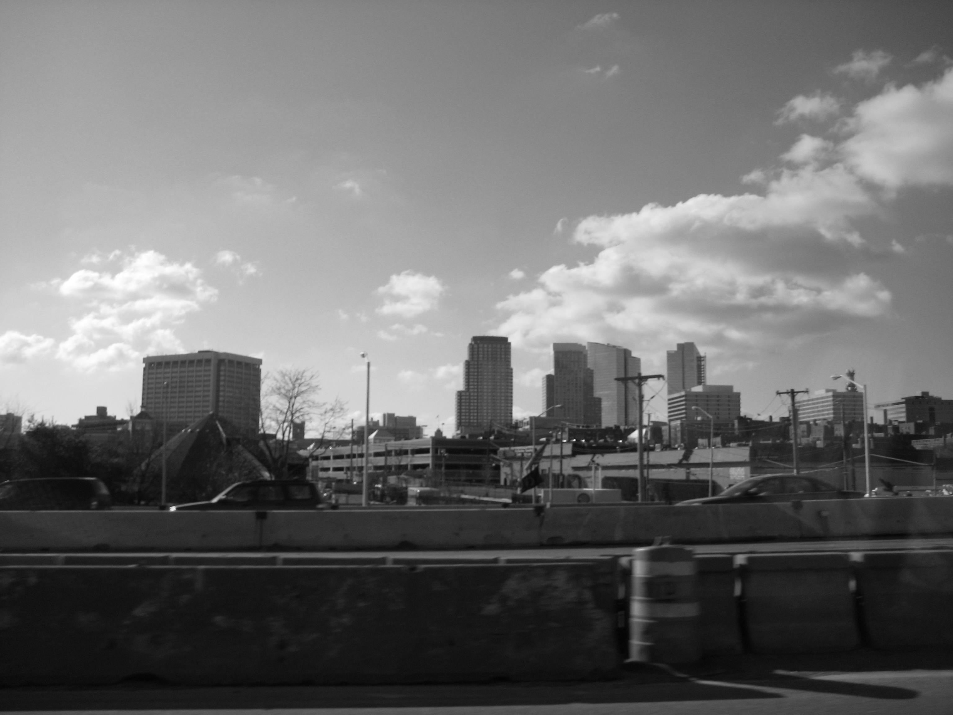 The booming skyline of the growing city of white plains.